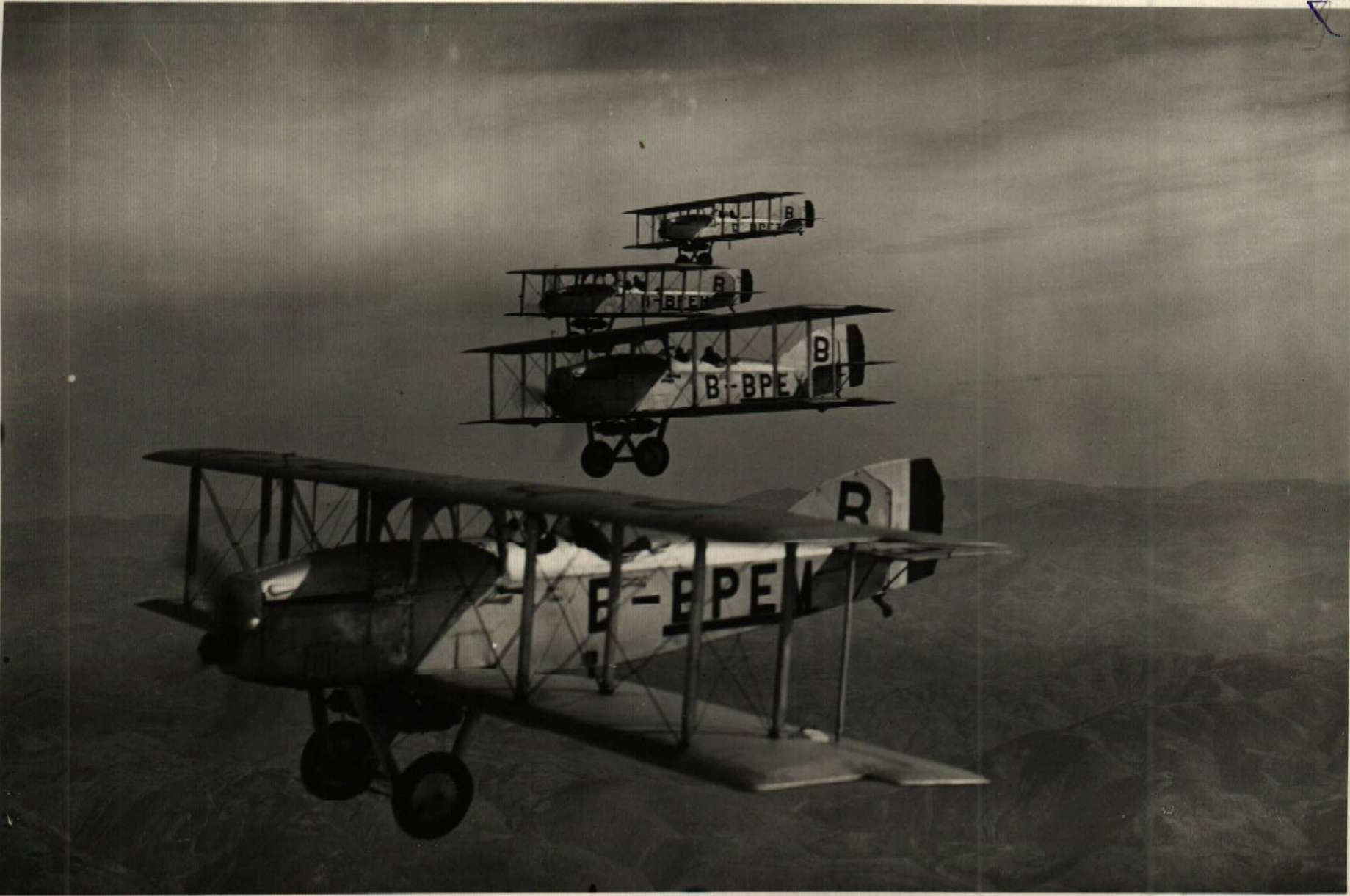 Airplanes in flight in Bulgaria. Picture taken between 1927 and 1934.